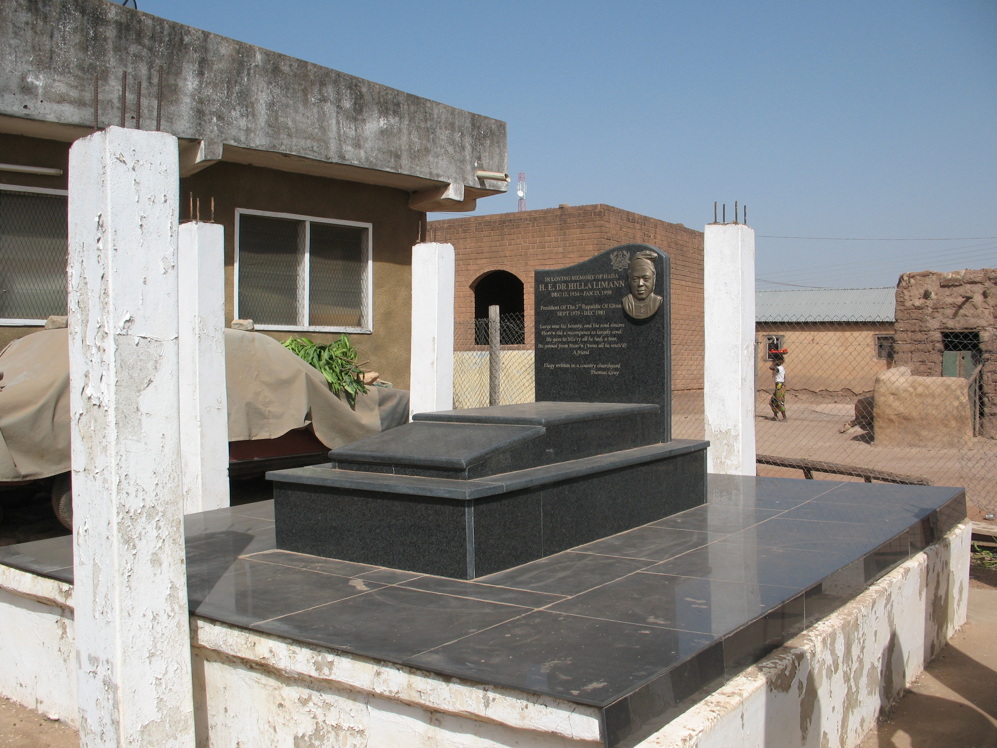 Hilla Limann's grave located in his native village of Gwollu in Northern Ghana